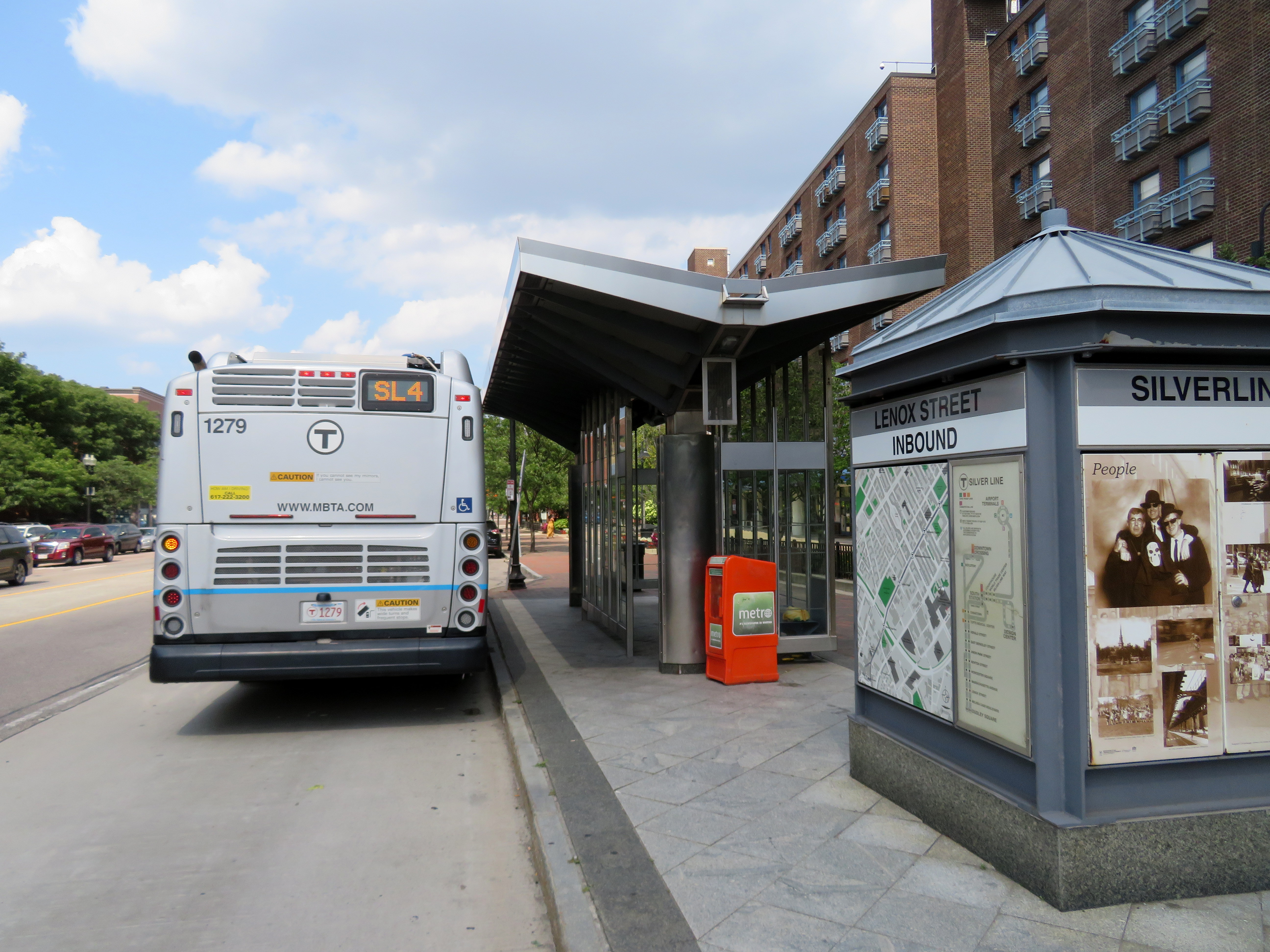 An inbound SL4 bus at Lenox Street in July 2019